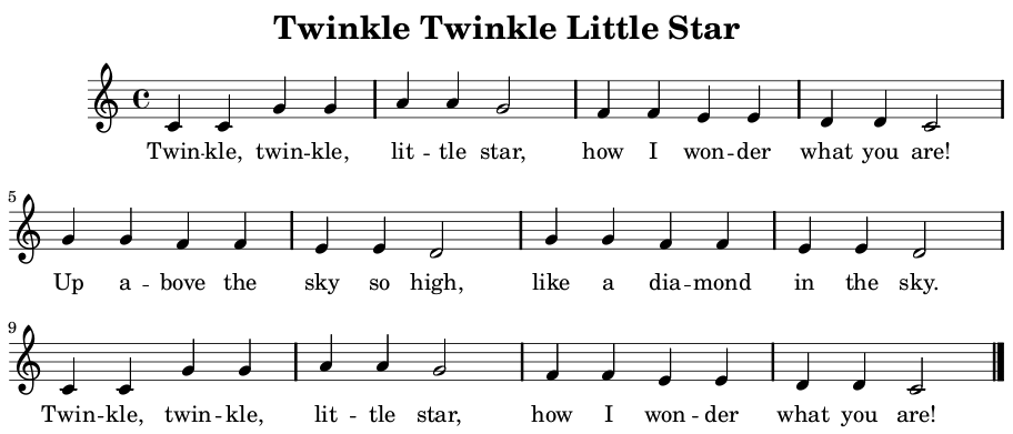 Sheet Music for Twinkle Twinkle Little Star.